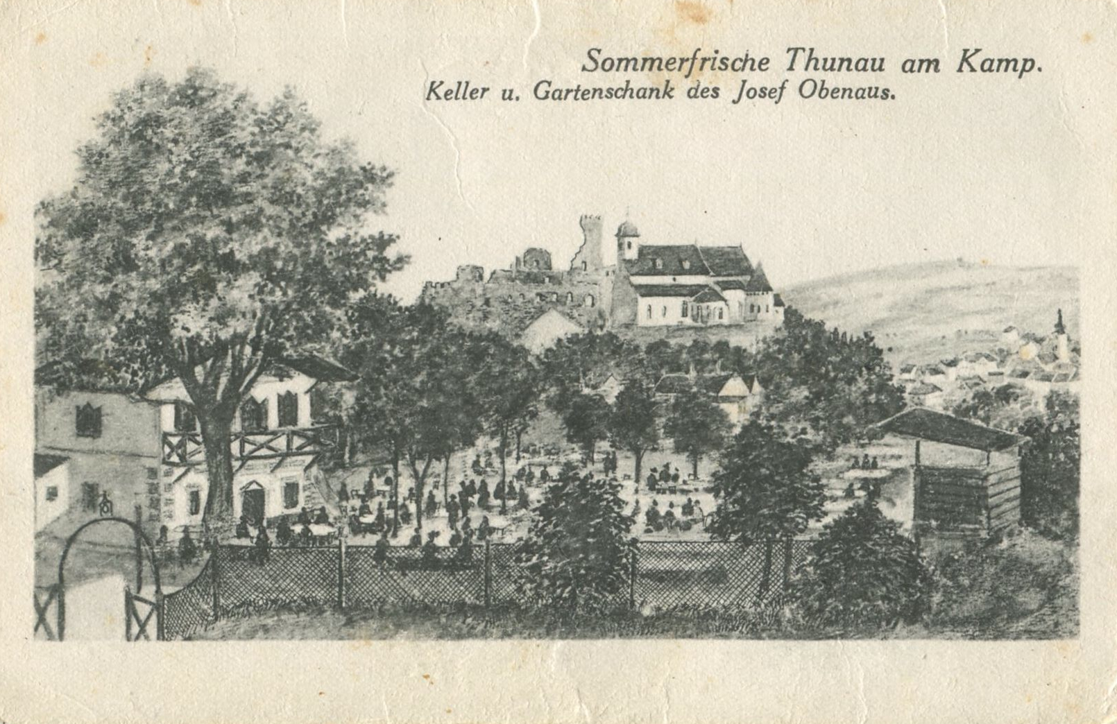 Thunau am Kamp, Lower Austria, Austria. Postcard, ca. 1910